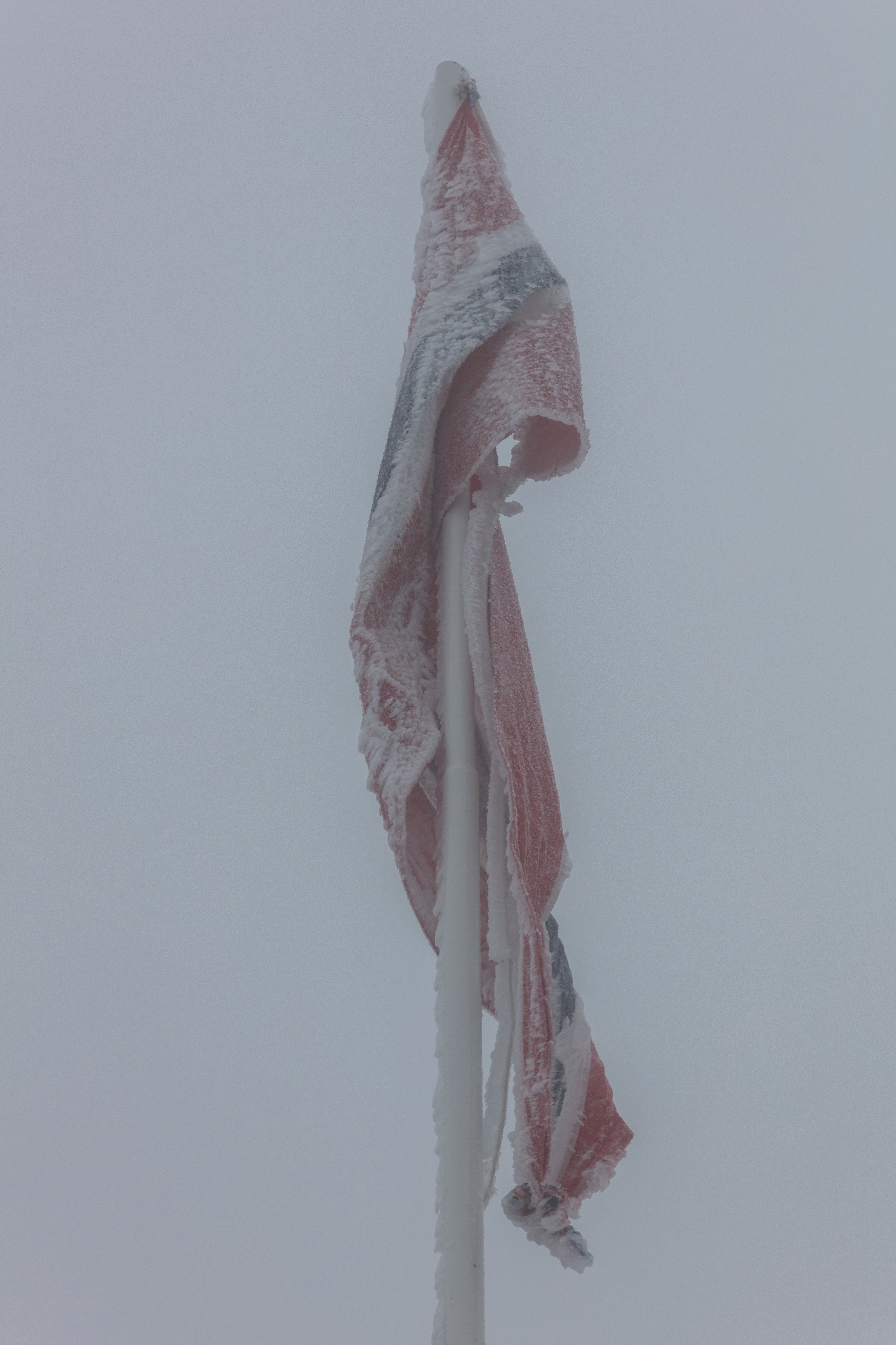 Frozen flag of Norway, Dalsnibba, Geiranger, Norway